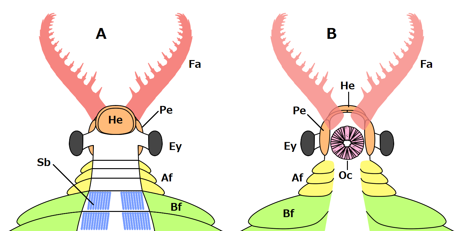 Anterior morphology of a generalized Anomalocaris radiodont (dinocaridid、stem-group arthropod). A: 背面 Dorsal view B: 腹面 Ventral view Fa: 前部付属肢 Frontal appendage He: 頭部背面の甲皮 H-element of head carapace complex Pe: 頭部側面の甲皮 P-element of head carapace complex Ey: 眼 Eye Oc: 口と歯 Oral cone Af: 首のヒレ Anterior flap Bf: 胴部のヒレ Body flap Sb: 鰓らしき構造体 Setal blade References 参考文献: The oral cone of Anomalocaris is not a classic ‘‘peytoia’’ (April 2012) Oral cone. Anomalocaridid trunk limb homology revealed by a giant filter-feeder with paired flaps (March 2015) Setal blades. A new hurdiid radiodont from the Burgess Shale evinces the exploitation of Cambrian infaunal food sources (July 2019) H-element and P-elements.